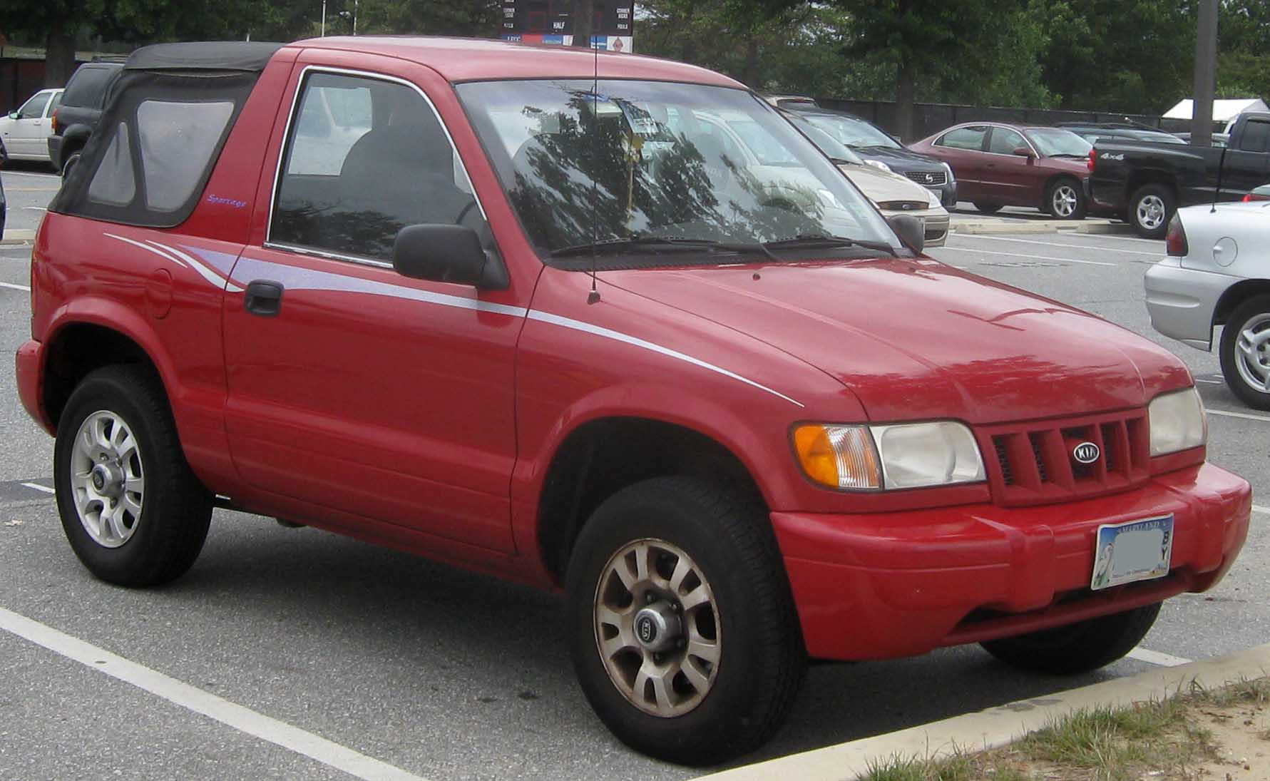 Kia Sportage photographed in College Park, Maryland, USA.